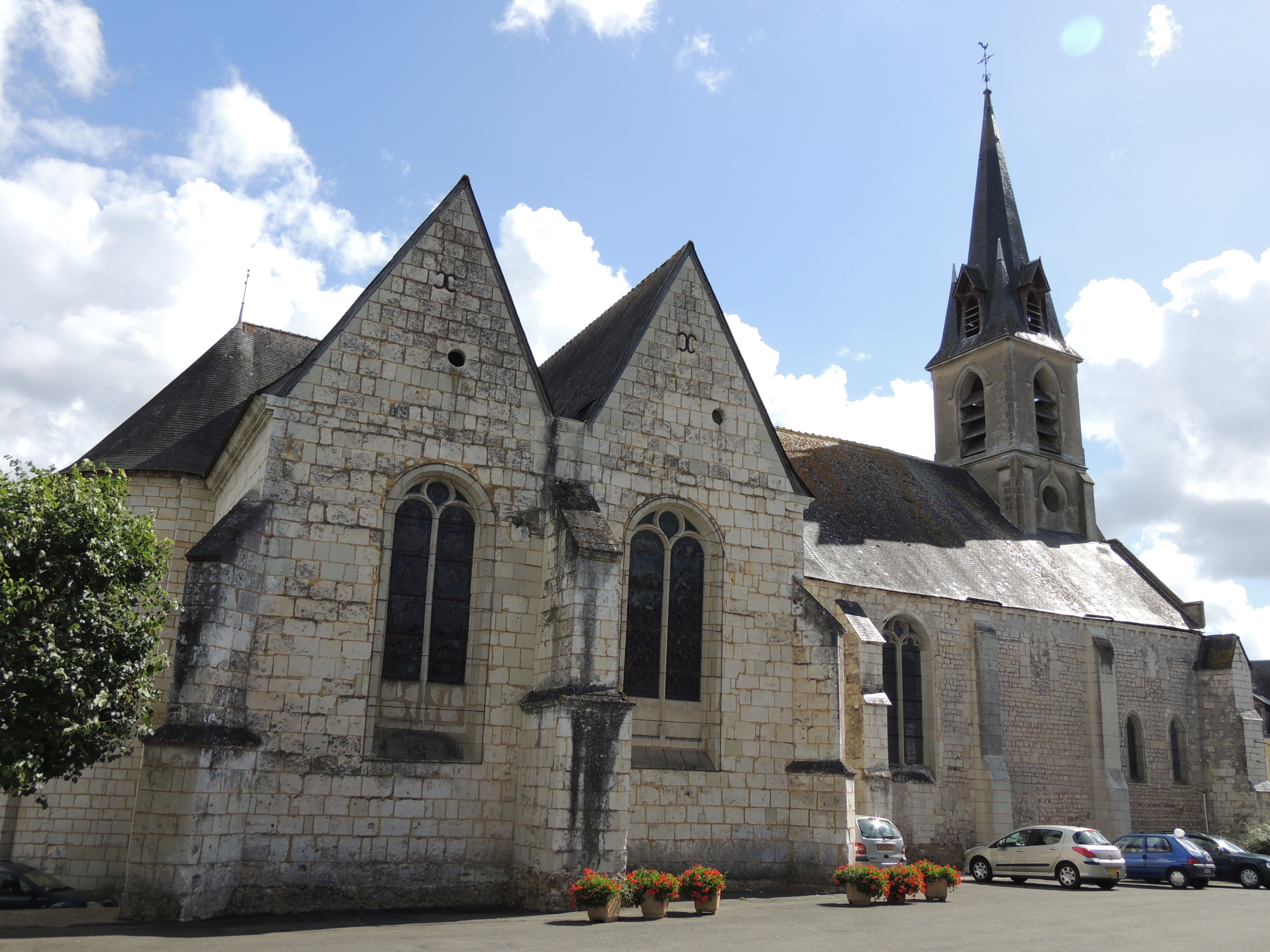 L'église Saint-Martin de Chenu